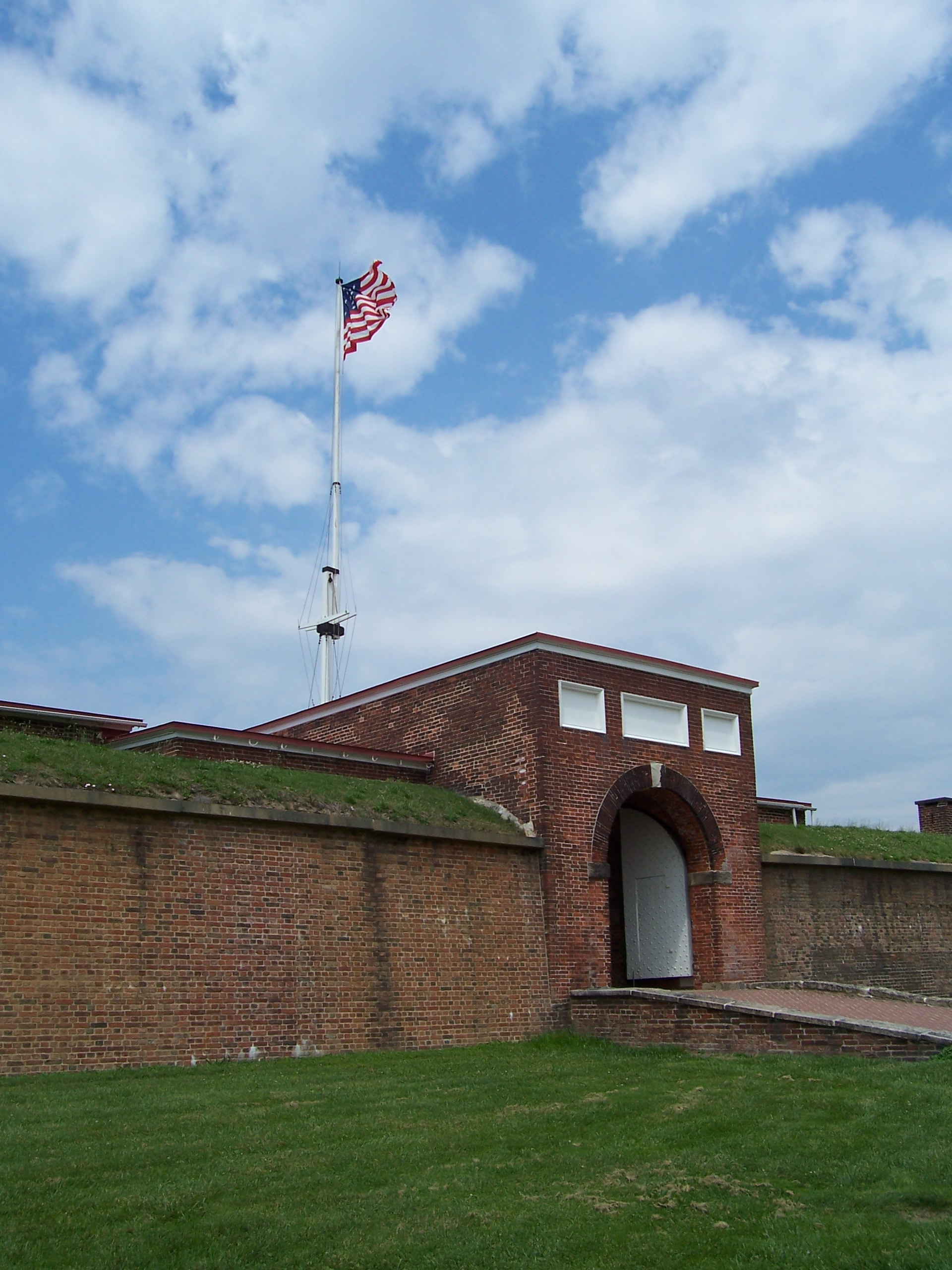 Main entrance to Fort McHenry, in Baltimore, Maryland.